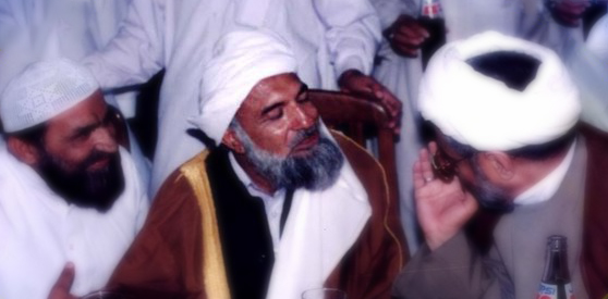 This image was taken from an event where Riaz Ahmed Gohar Shahi spoke. It was located at the Imam Bargah-e-Noor-e-Iman, a mosque in Karachi, Pakistan. The photo has been retouched. In this particular image Shahi is speaking to religious clerics of two different sects within Islam (Shia Islam and Sunni Islam).